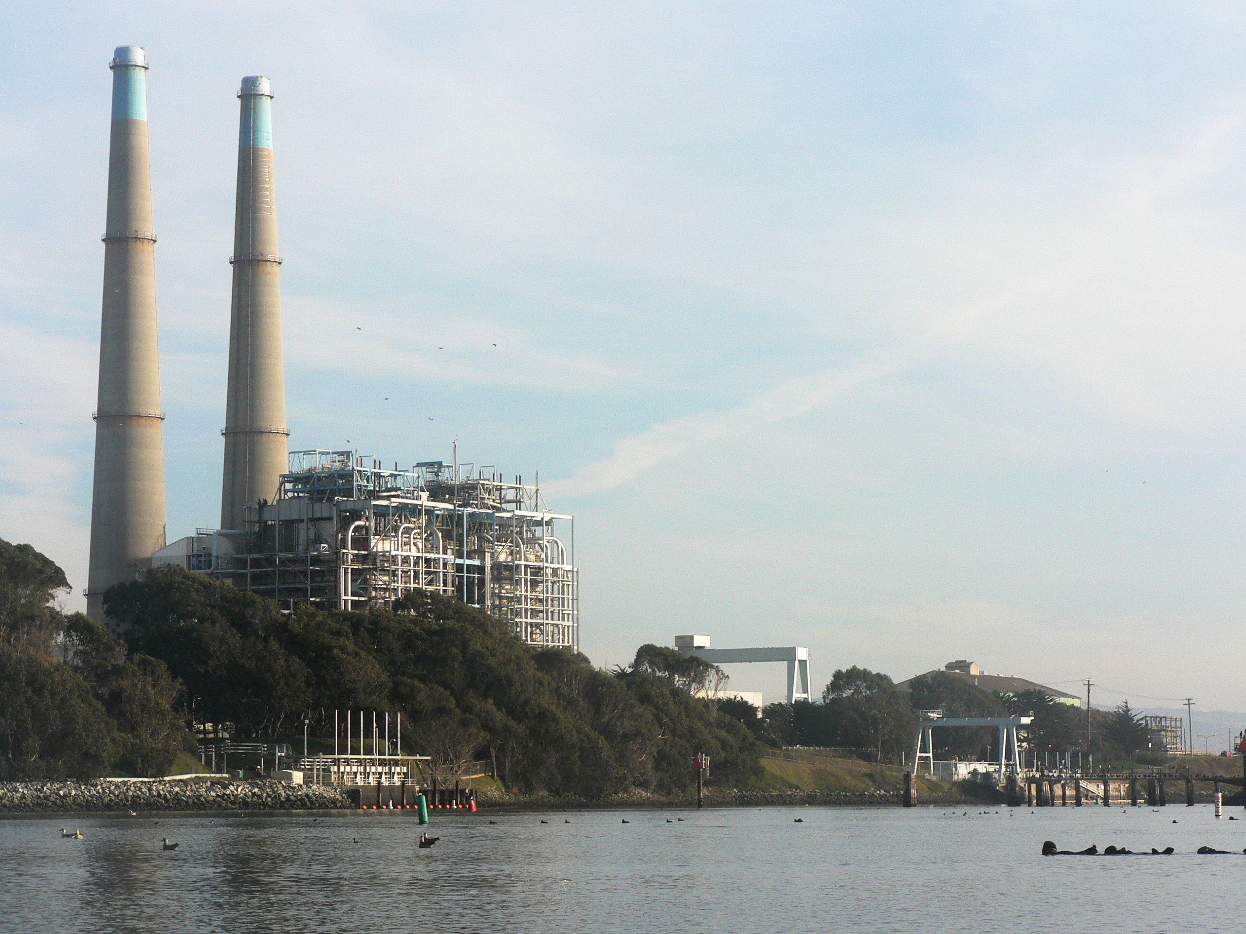 Moss Landing Power Plant, Moss Landing, California. Contrast enhanced to compensate mist.